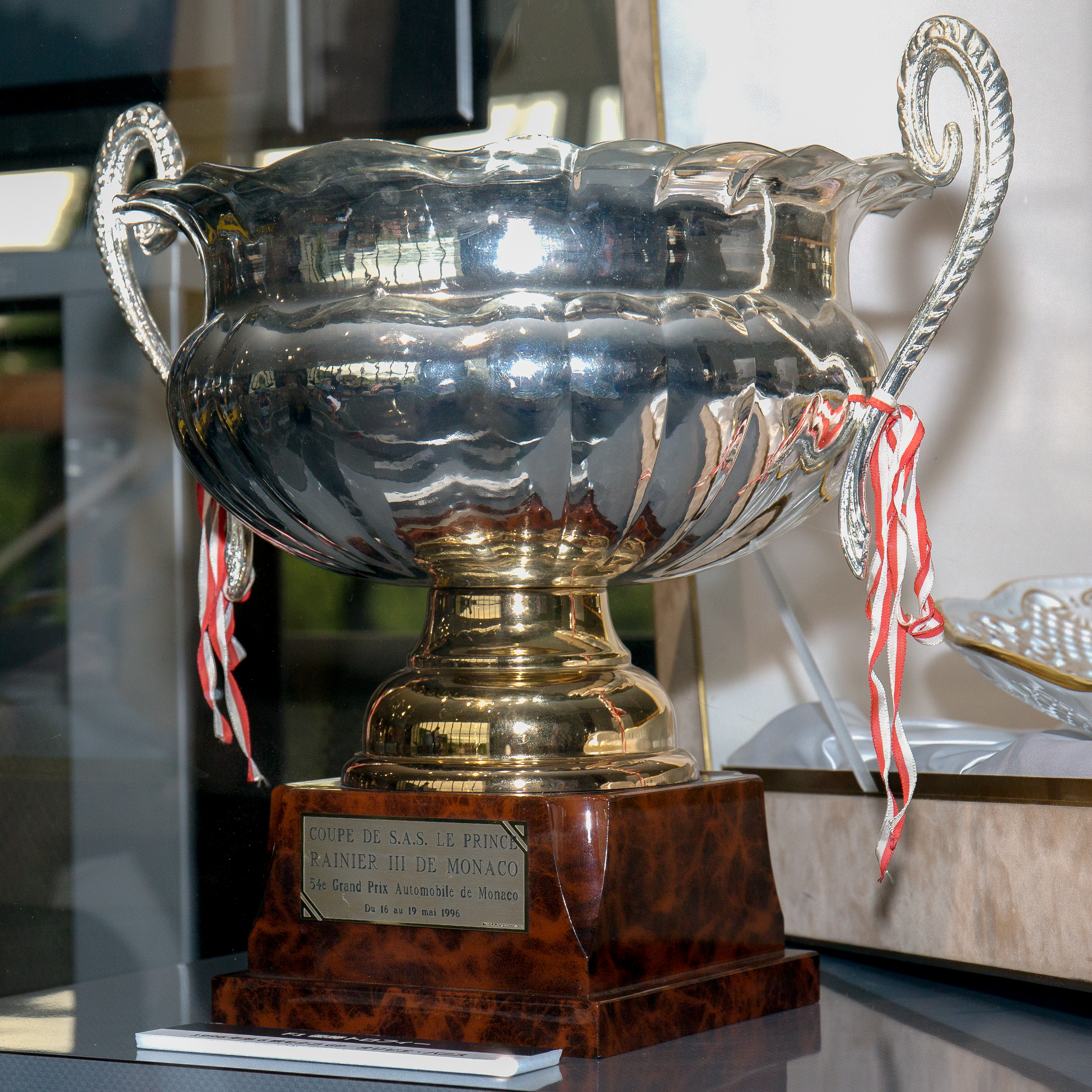 1996 Monaco Grand Prix winner's trophy (for Olivier Panis)